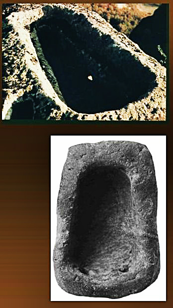 Tatul_sarcophagus